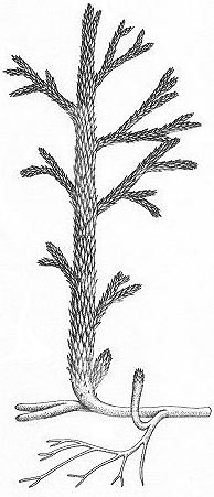 Illustration of Asteroxylon mackiei from the Rhynie Chert